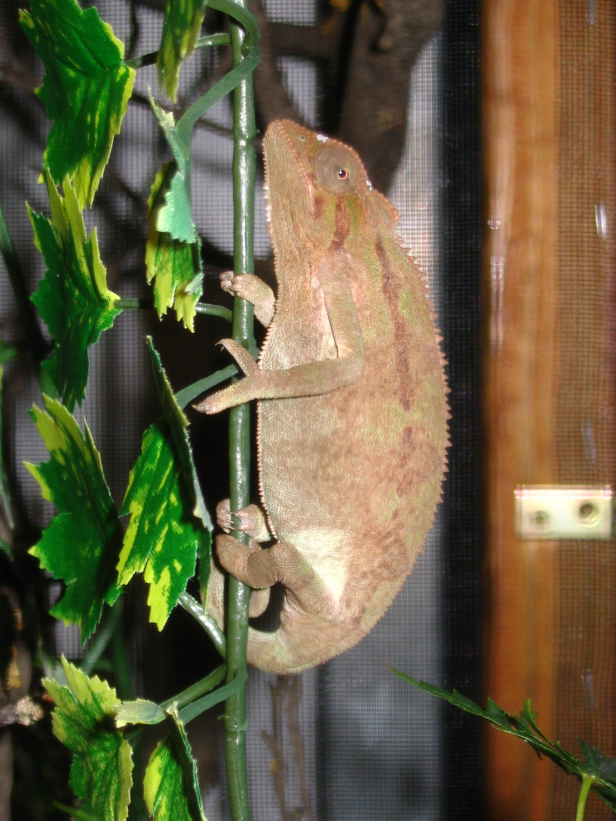 weibliches Chamaeleo ellioti